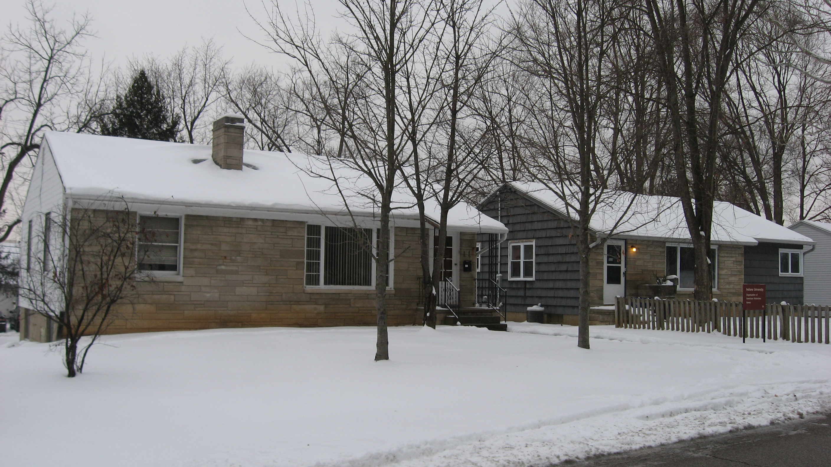 Houses at 111 (left) and 113 (right) N. Bryan Avenue in Bloomington, Indiana, United States. Built in 1950, they were constructed to accommodate the booming numbers of Indiana University students after World War II.